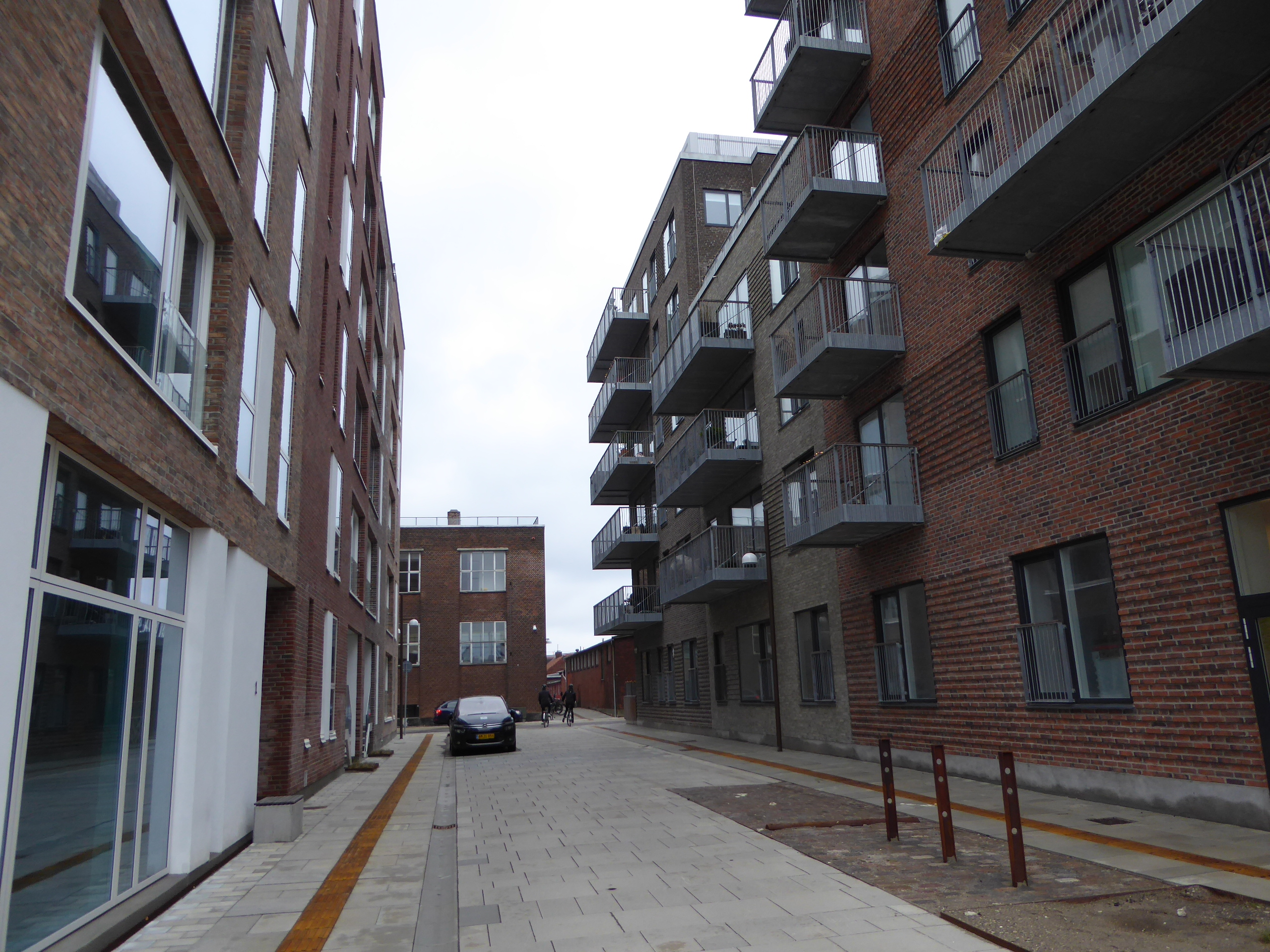 The street Karlskronagade in Nordhavn in Copenhagen.